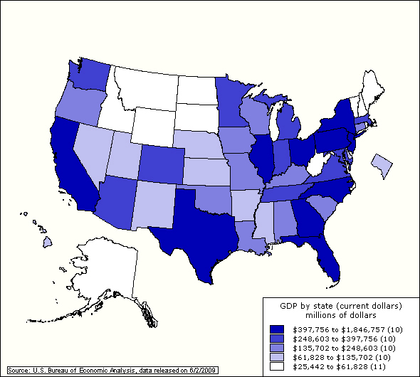 U.S. GDP by state, 2008 figures (current dollars)